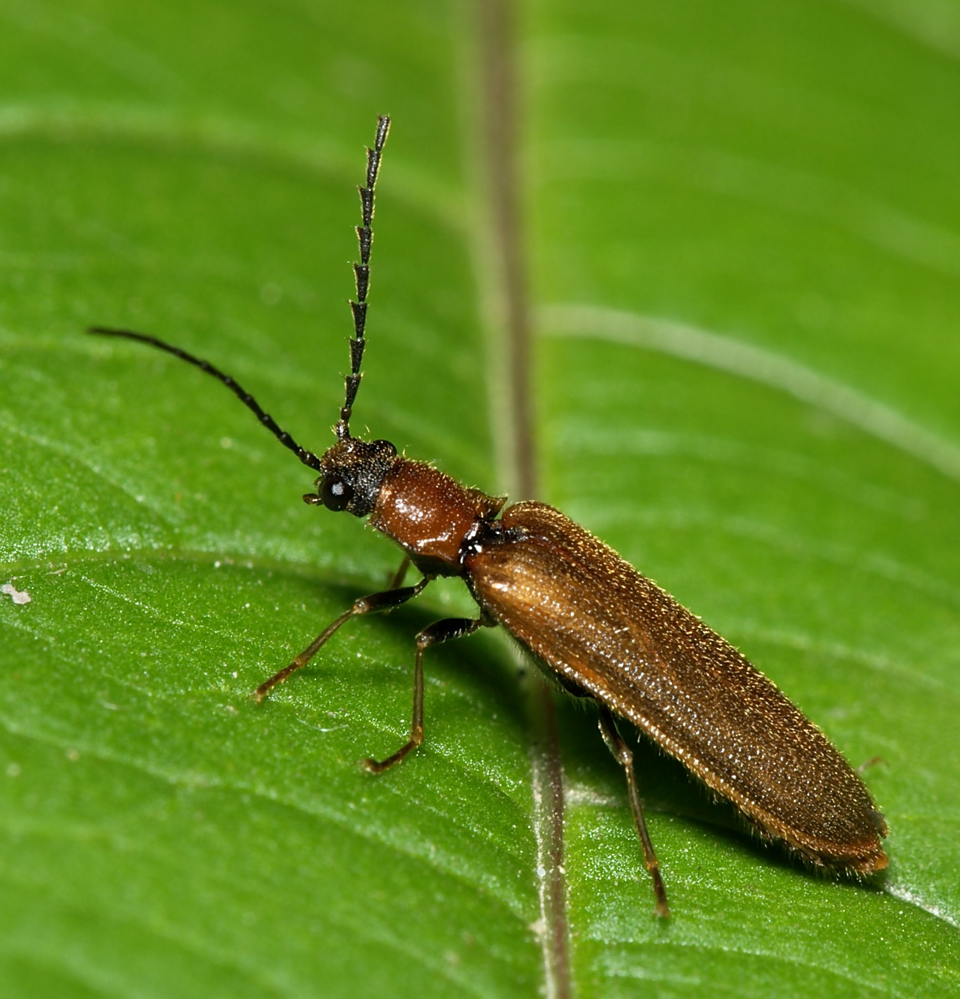 Denticollis linearis from Koenigsforst near Cologne, Germany.